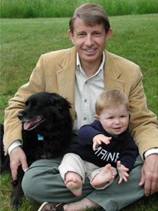 Maine Senator Peter Mills with his grandchild and dog, Cornville, Maine